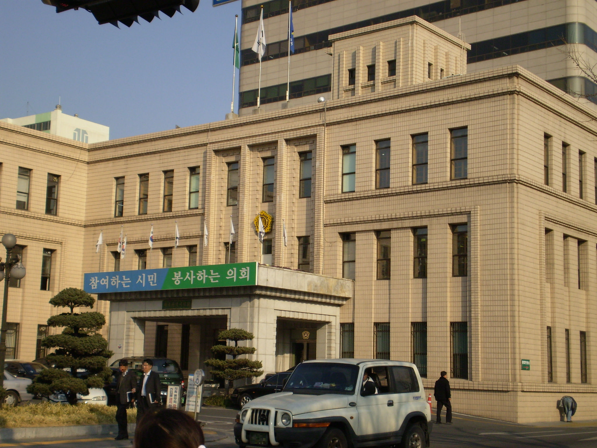 City assembly (시의회) building in Daegu, South Korea.